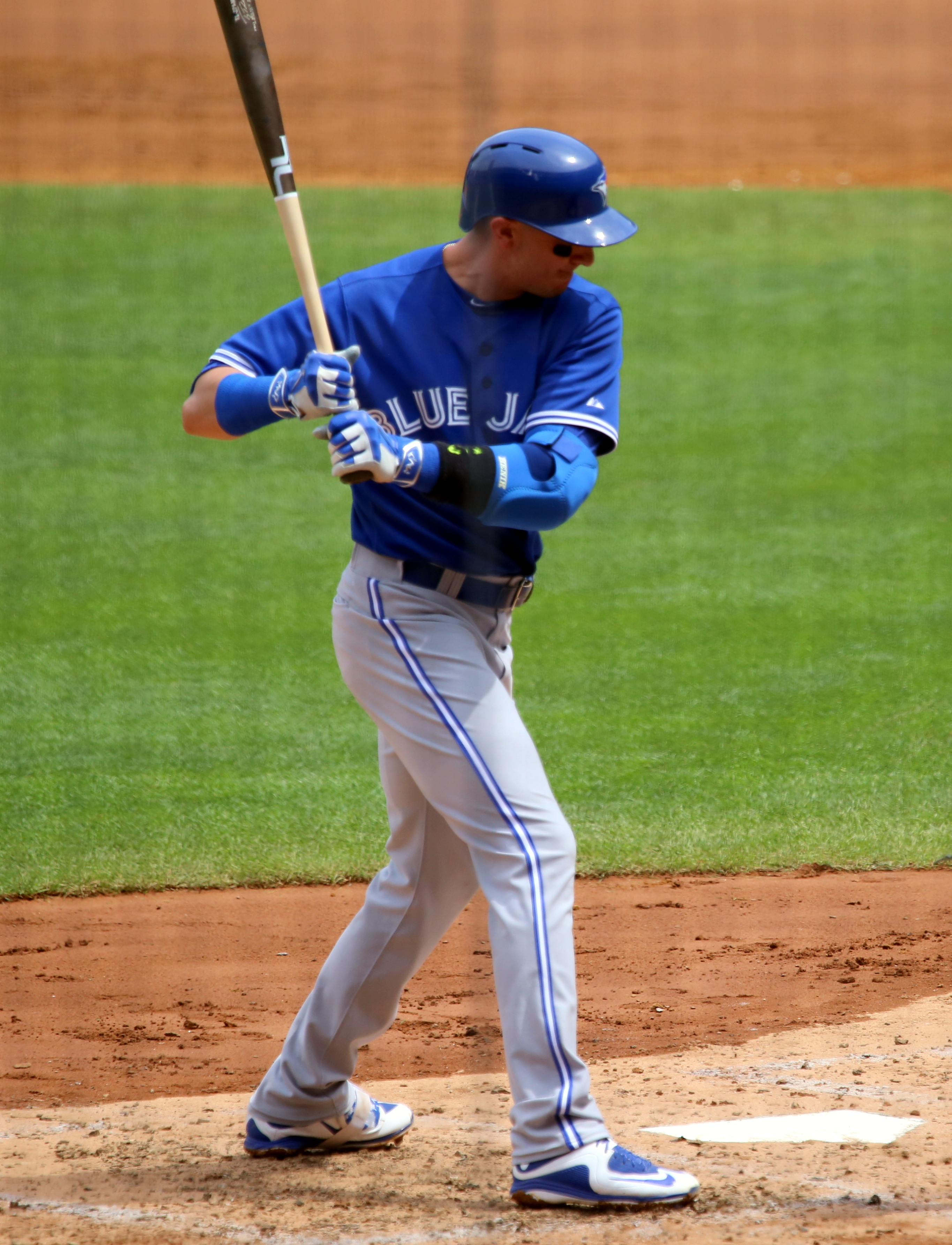 Troy Tulowitzki on August 8, 2015.